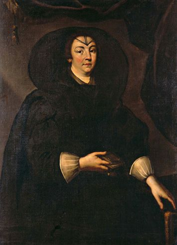 Probably a 17th Century painting of Donna Olimpia Maidalchini (1591-1657)